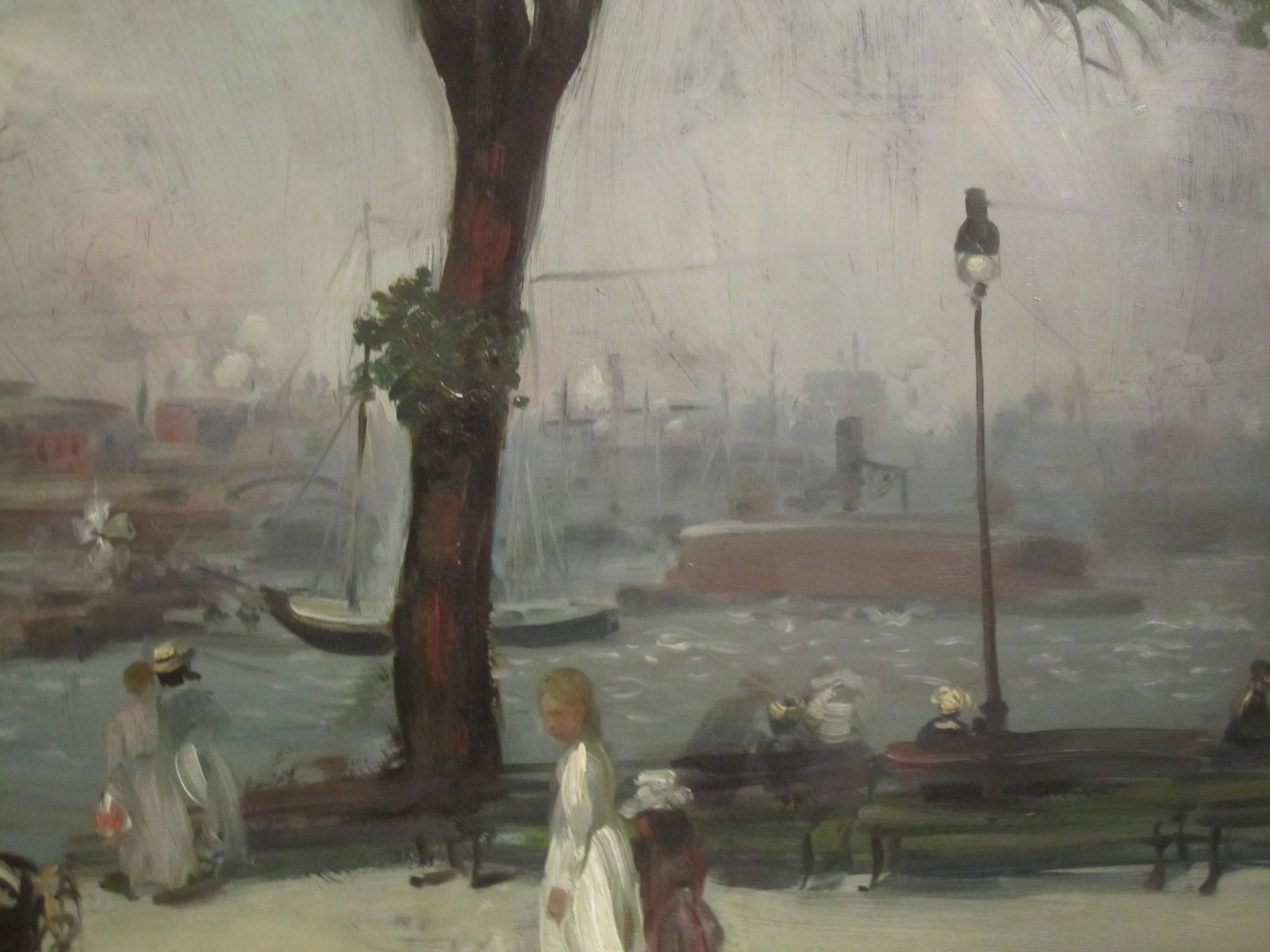 I took photo with Canon camera at Brooklyn Museum of William Glackens' 1902 painting "East River Park". No copyright